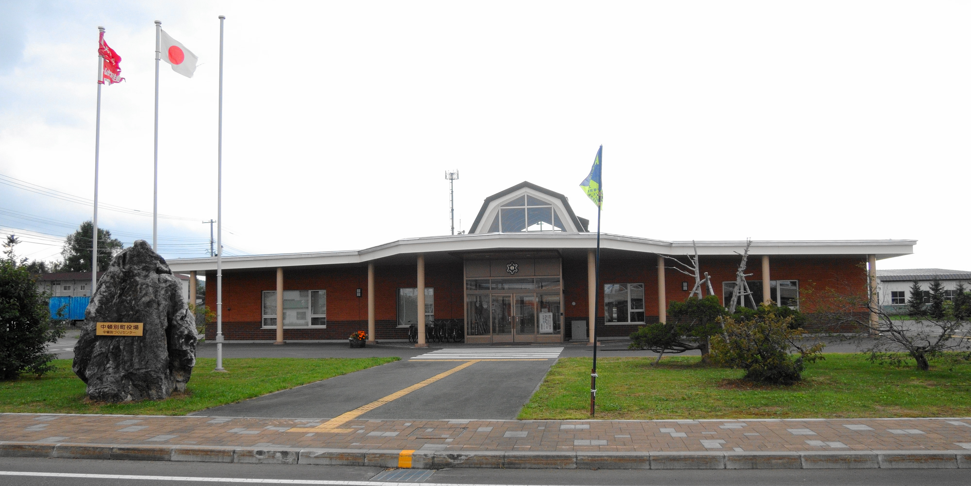 Nakatombetsu town hall,Hokkaido prefecture,Japan